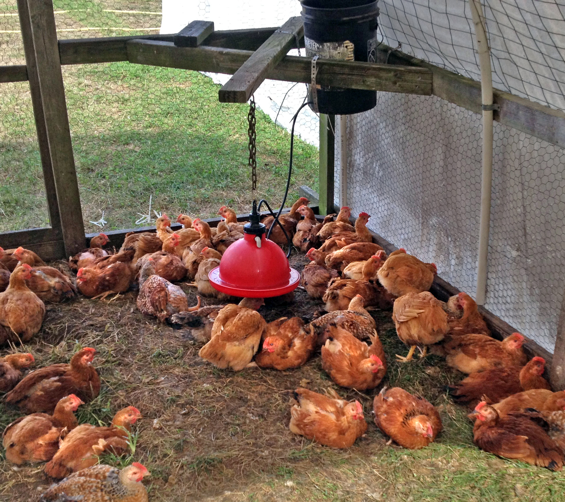 Rhode Island Red hens gathered in shade inside a chicken coop at Stone Barns Center for Food & Agriculture (Pocantico Hills, NY)